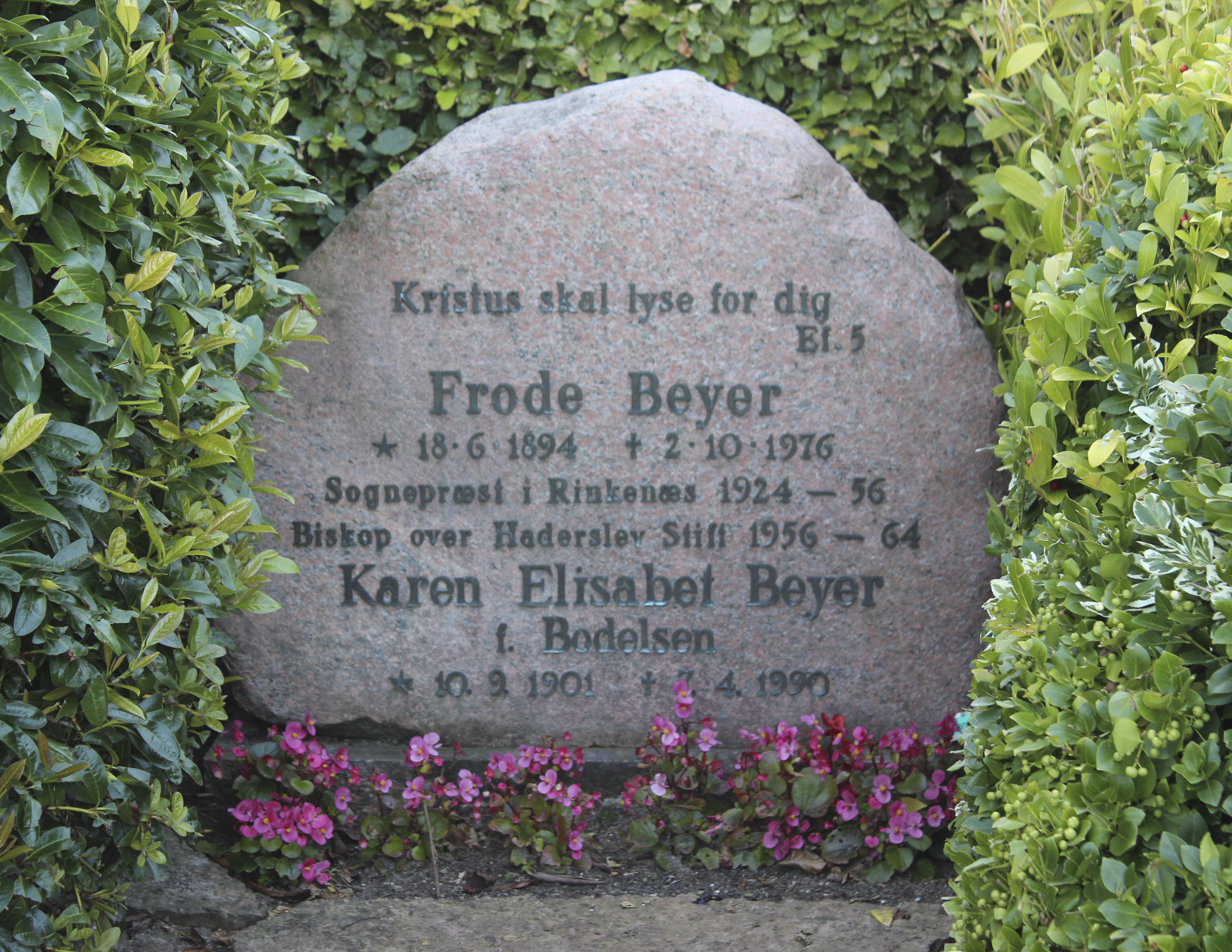 The graveyard of Frode and Karen Beyer at the churchyard of Rinkenæs parish